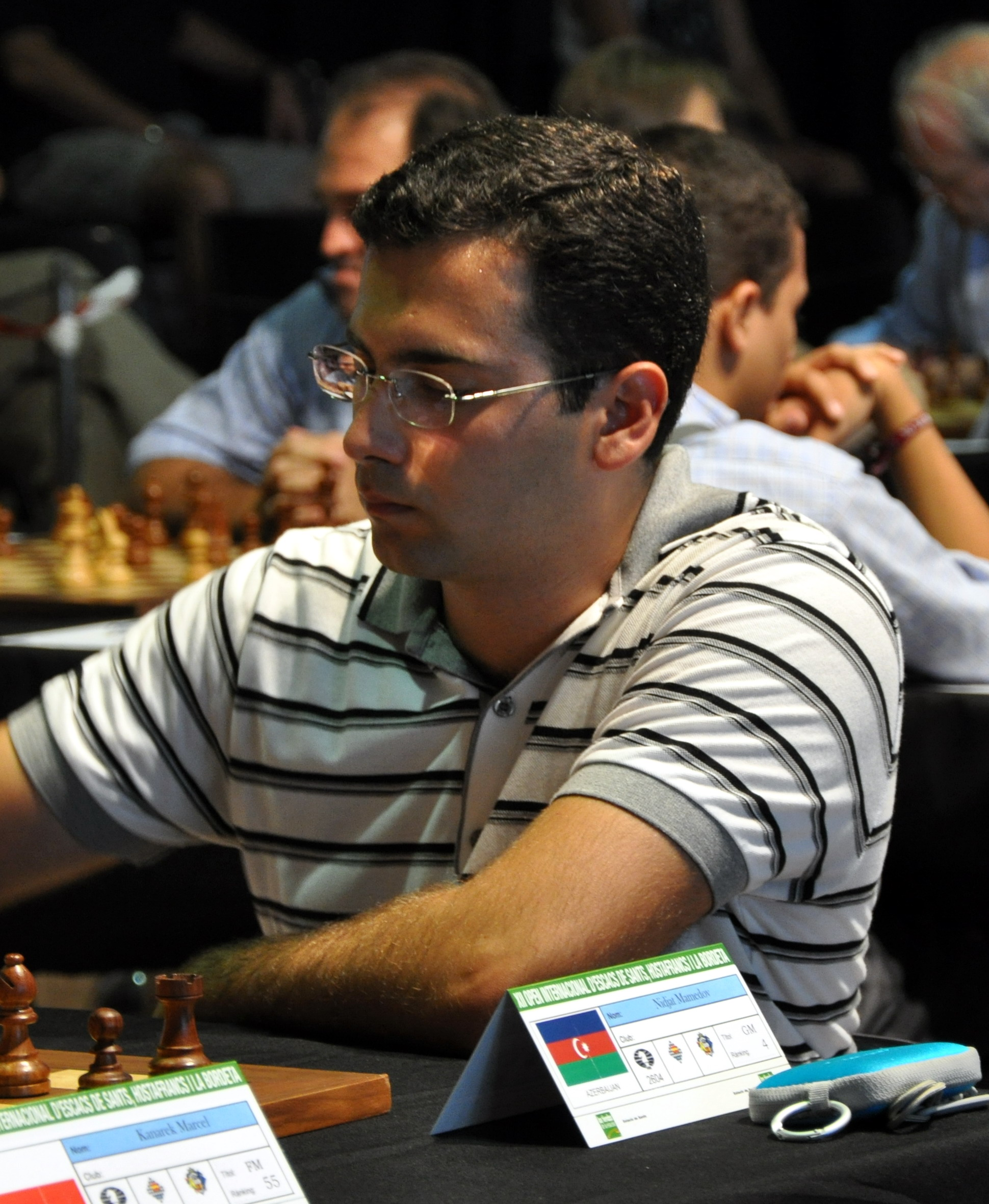 GM Nidjat Mamedov (Azerbaijan), XII Open Internacional de Sants, Hostafrancs i la Bordeta Grup A, Barcelona 2010